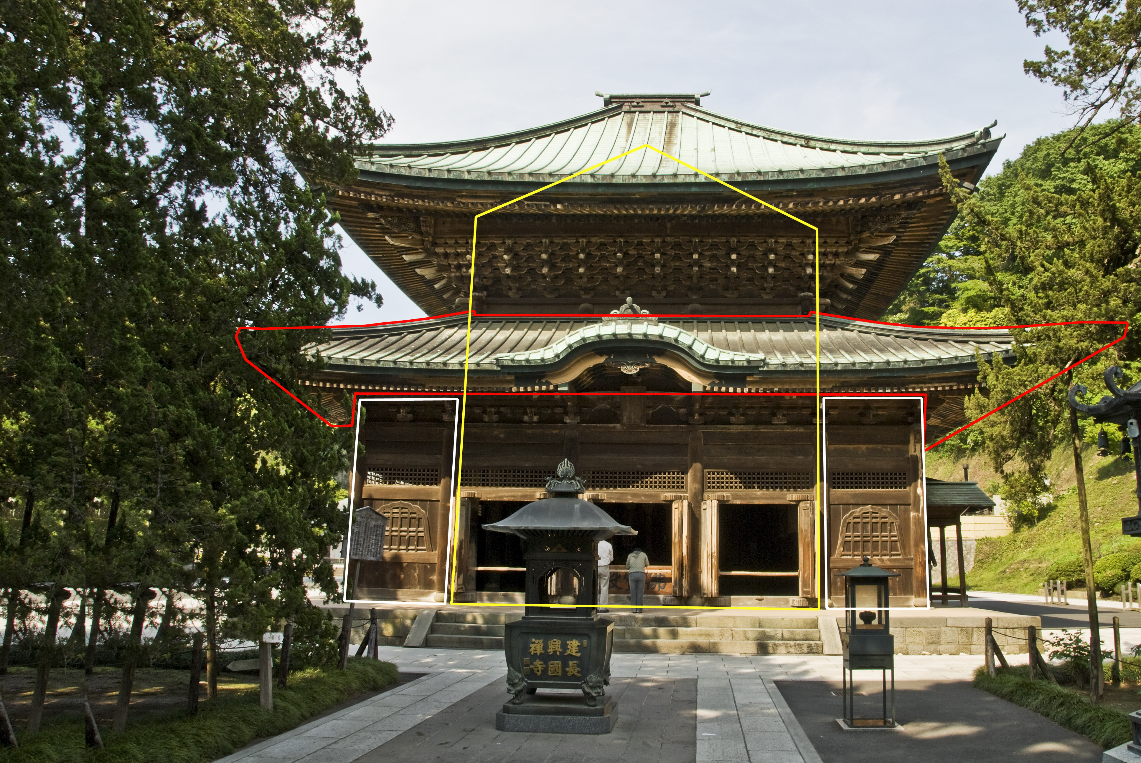 A schematic illustration of the Japanese architectural terms mokoshi (red) a pent roof, hisashi (white) an aisle surrounding the moya (yellow) the core of the building